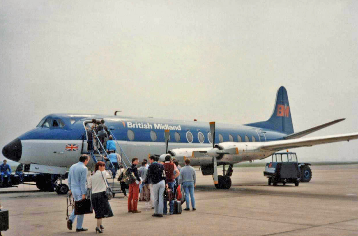 Vickers Viscount 813 of British Midland Airways operating a UK domestic flight